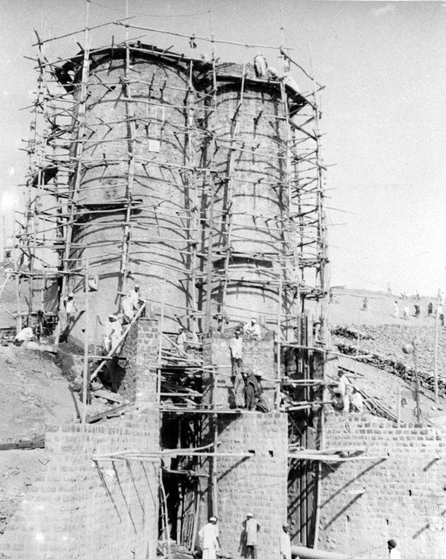 Caption:- Ph. Studio/March. 56, A45aA view of the canal tower of the Gangapur Dam in Bombay State. Photo Number:-50856